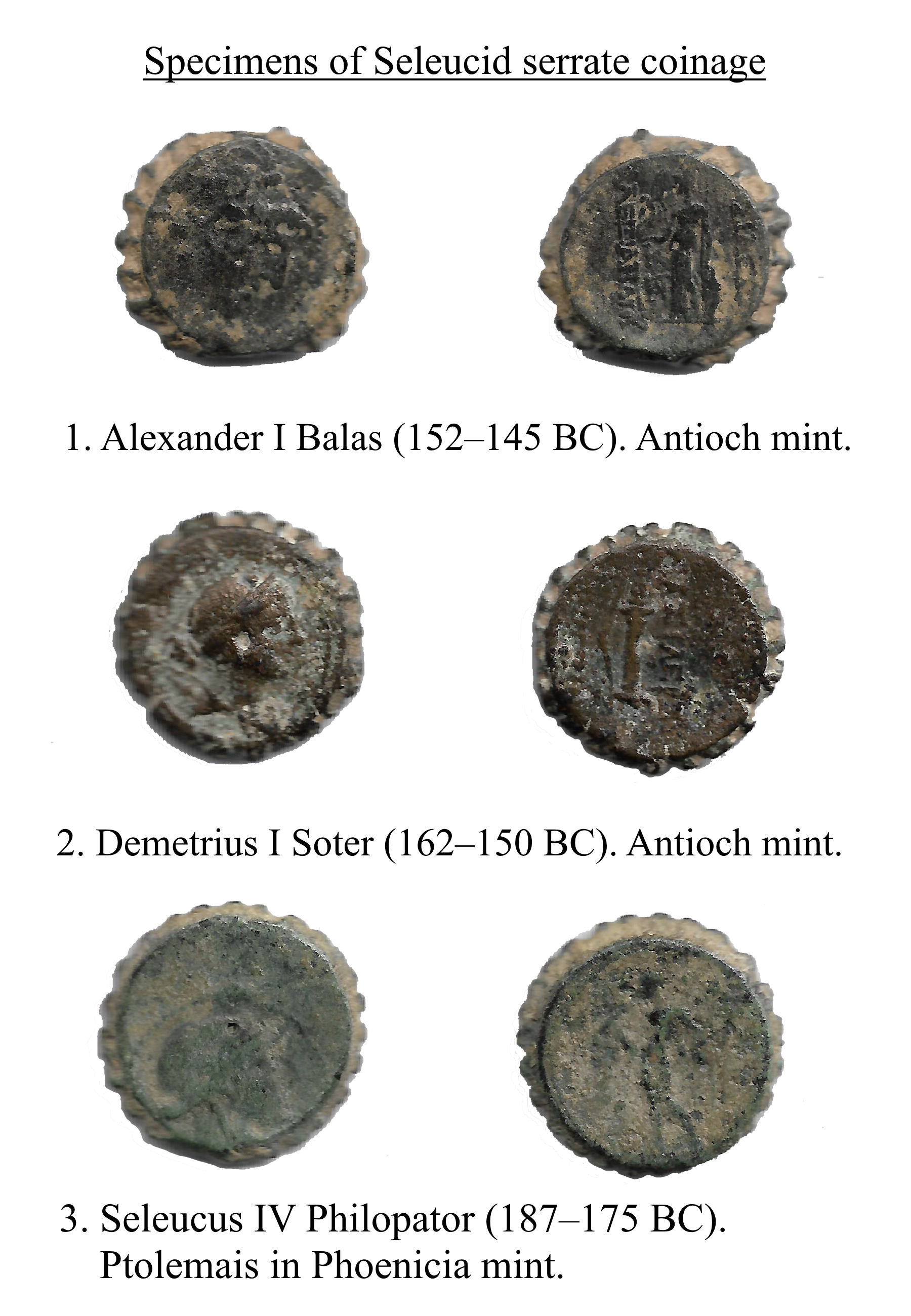 Specimens of Seleucid bronze coinage with serrate edges. While the coins are quite worn, their edges are well preserved.